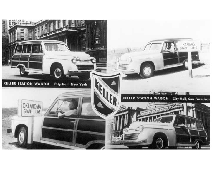 Apparently this was built at Restone Arsenal, Alabama. I've never heard of it.